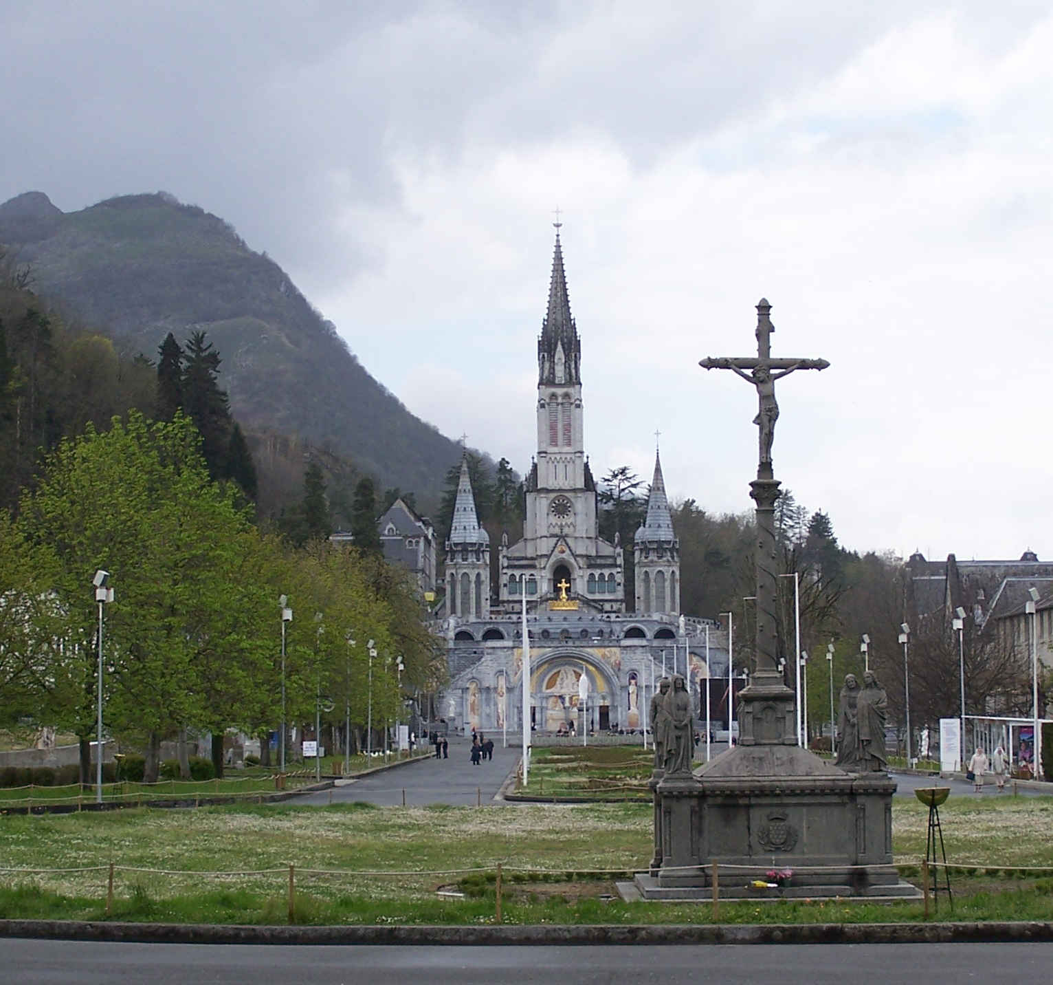 Sanctuary of Our Lady of Lourdes, taken from St. Michael's Gate. Kodak DX6490 digital camera.